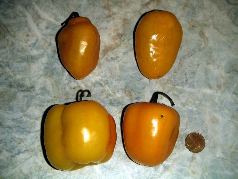 Some different fruits of Capsicum pubescens. Upper row: Chile de Seda, lower row: Chile manzano/Rocoto canario. Photograph by User:Carstor